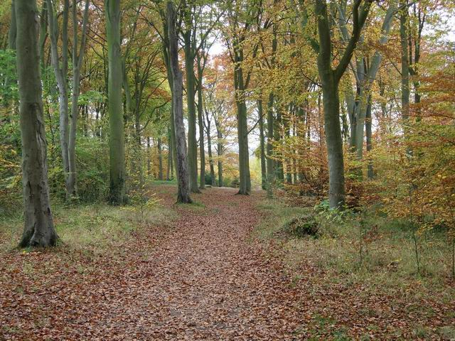 Beechwoods nature reserve. The mature part of this Wildlife Trust reserve. Many tracks pass through the area, providing a welcome contrast to the surrounding farmland and city.